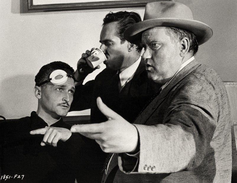 L. to R. : Philip H. Lathrop (camera operator), Charlton Heston & Orson Welles on the set of Touch of Evil (released in 1958) - publicity still